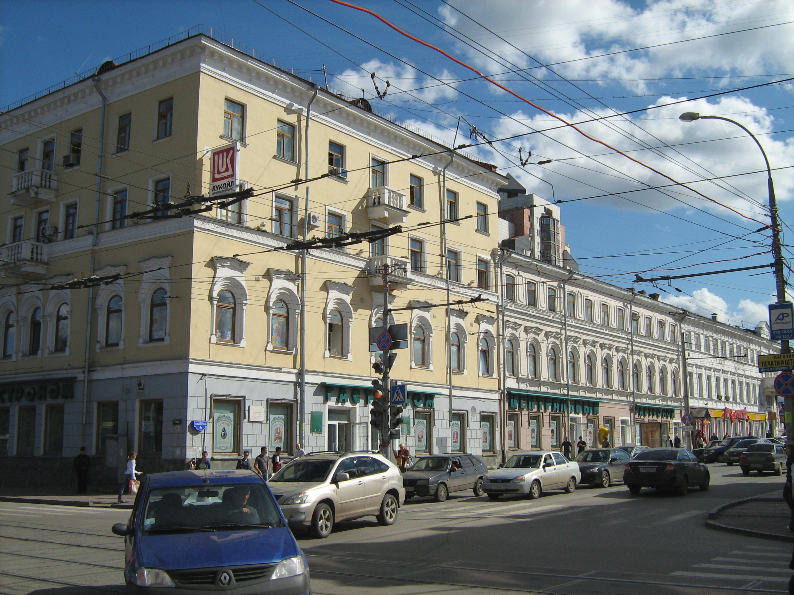 The building in Perm where in 1876 was Józef Piotrowski bookstore